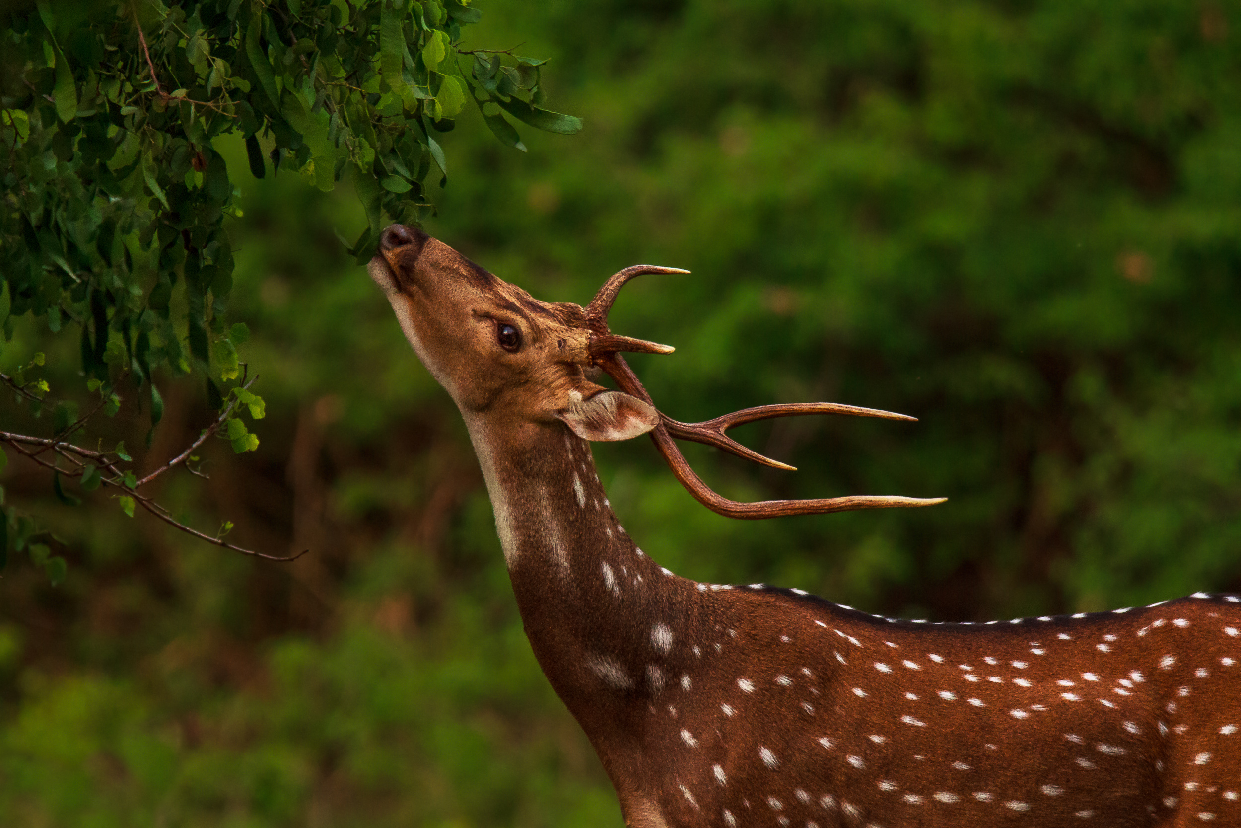 Monsoons have gifted her greenery back with a glow in her child's eyes. After the summer heat we visited Bandipur tiger reserve for 2 days stay and was welcomed with lush green newly blossomed leaves giving surplus fresh food for its habitats. Took this shot during morning safari after a rainy night in Bandipur.